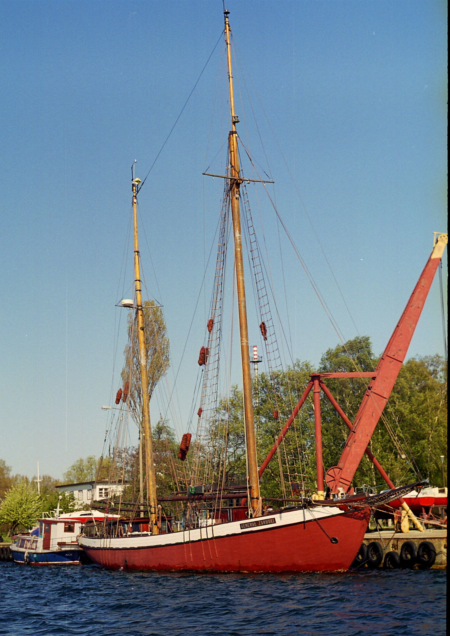 Sail training ship General Zaruski in Jastarnia port. Ship Type: KETSCH 1939 Built by B.Lund Ekenäs, Kalmar, Sweden Overall length: 25.34 m Breadth: 5.80 m Draught: 3.50 m Sail area: 310 m2 Ship's hull: Holz / Wood Main engine: Albin, 150 Pk History 1939 Built on Polish order, caused by the World War she was not delivered. Named: Kryssaren Flag: Sweden. 1945 Taken over by the Friends of Soldiers League (Liga Przyjaciół Żołnierza) which was later on transformed into the League of State Defence. Became a Polish sail training ship. Renamed: Młoda Gwardia (Young guard). 1957 Renamed the General Zaruski after general Mariusz Zaruski (1867-1941). 12.2008 Sold to the City of Gdansk After thorough renovation works, the ketch will both promote the City and serve as a training yacht for young people. Registered port: Gdynia Flag: Poland